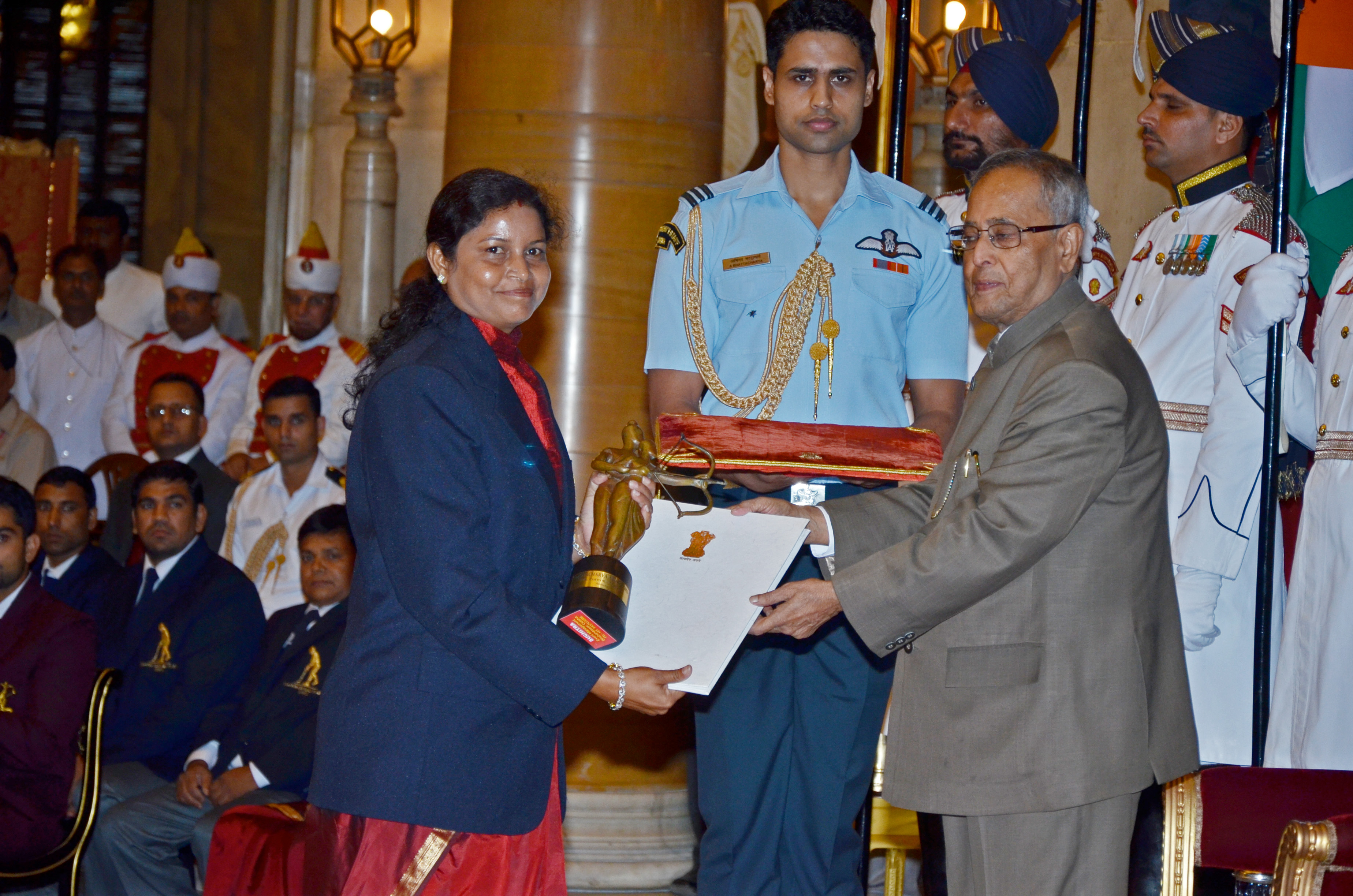 Purnima Mahato receiving Donacharya Award from President on 31st August 2013 at Rashtrapati Bhawan,New Delhi.